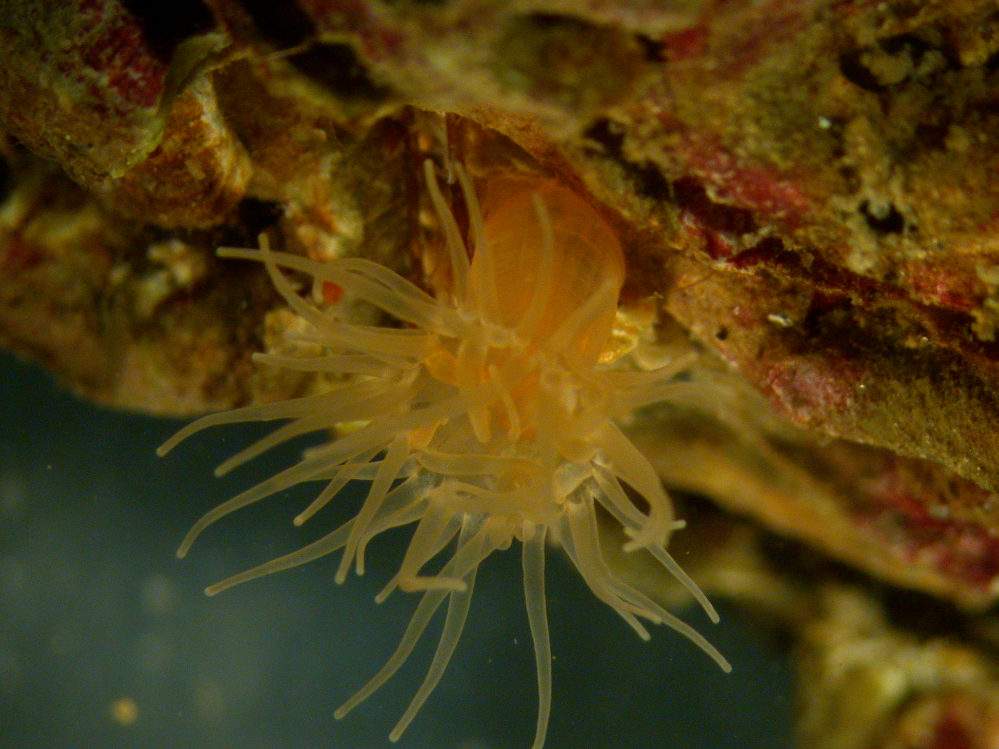 Stereo microscope photo of the sea anemone _Diadumene cincta_ (Actiniaria: Diadumenidae) collected at Tjärnö, Bohuslän, Sweden.